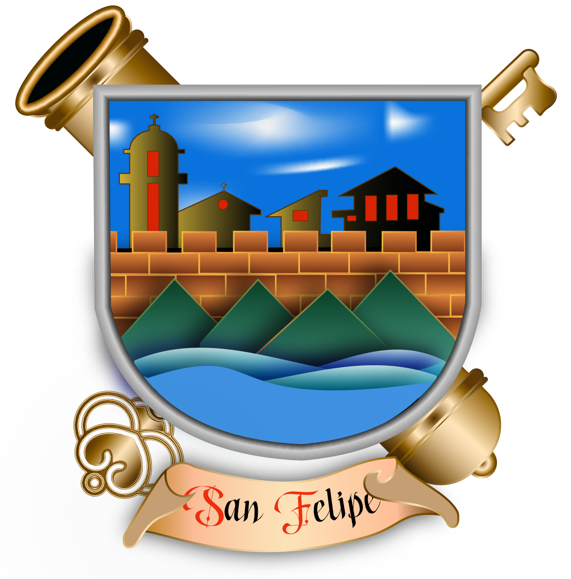 The City Shield is the creation of Dr. Pablo Emilio Ávila, now it has been improved to give it more character.